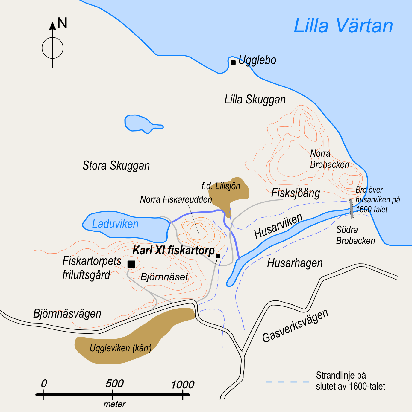 Area around Fiskartorpet, Norra Djurgården, Stockholm. Simplified map with historical names showing the place for King Karl XI's fishing cottage, built around 1680.